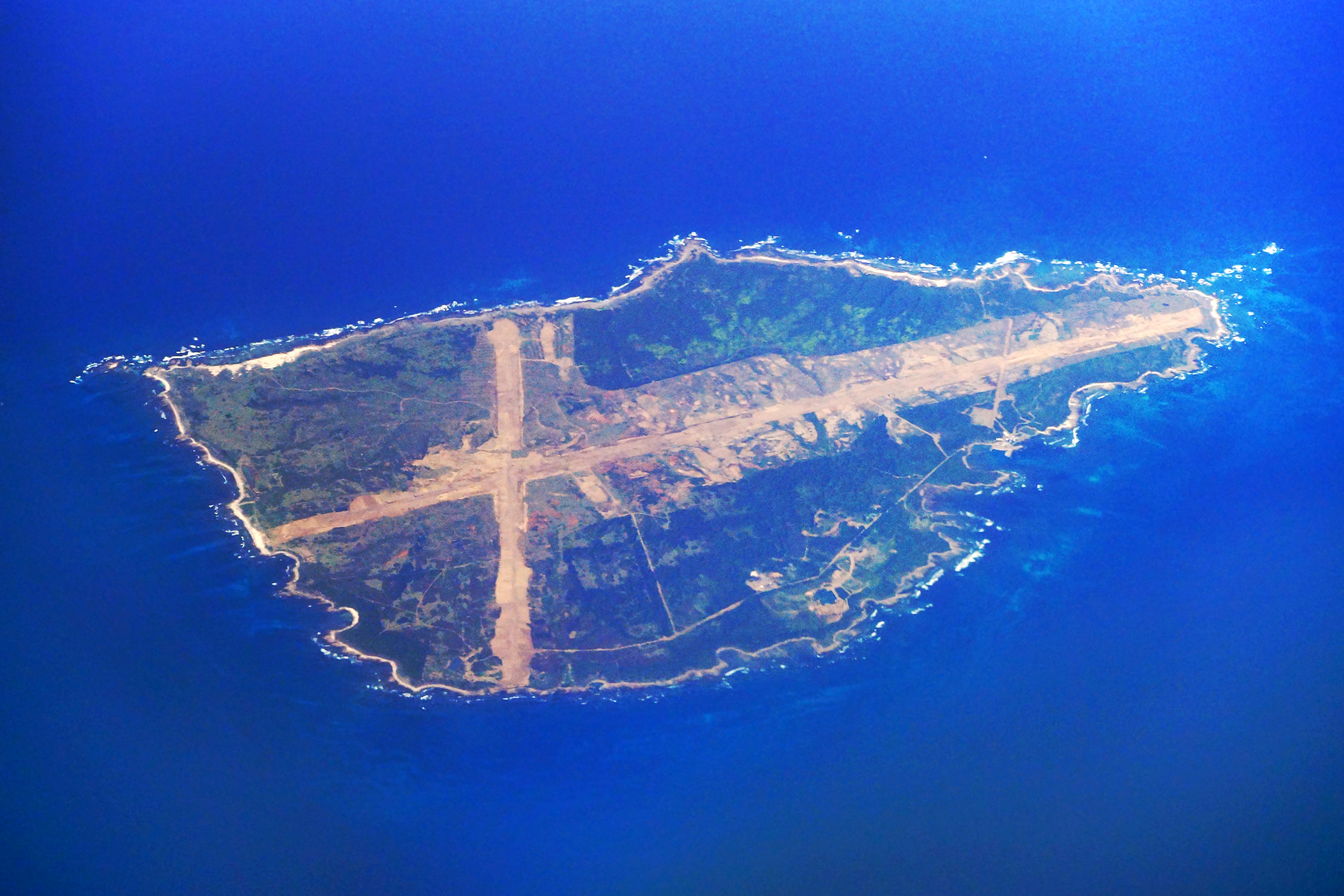 Mage Island in Nishinoomote, Kagoshima prefecture, Japan